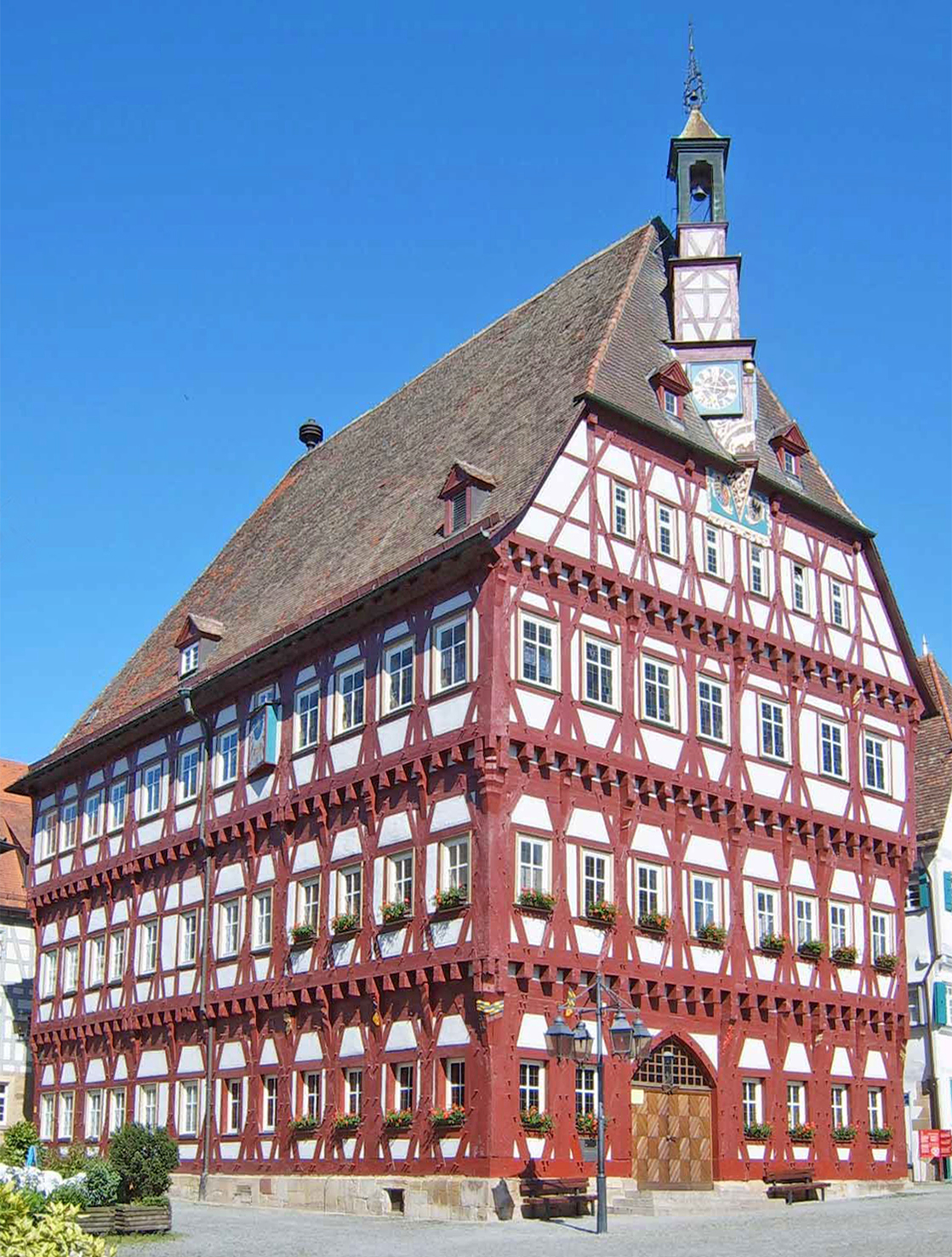 Town Hall of Markgröningen (district of Ludwigsburg; Federal State of Baden-Württemberg)